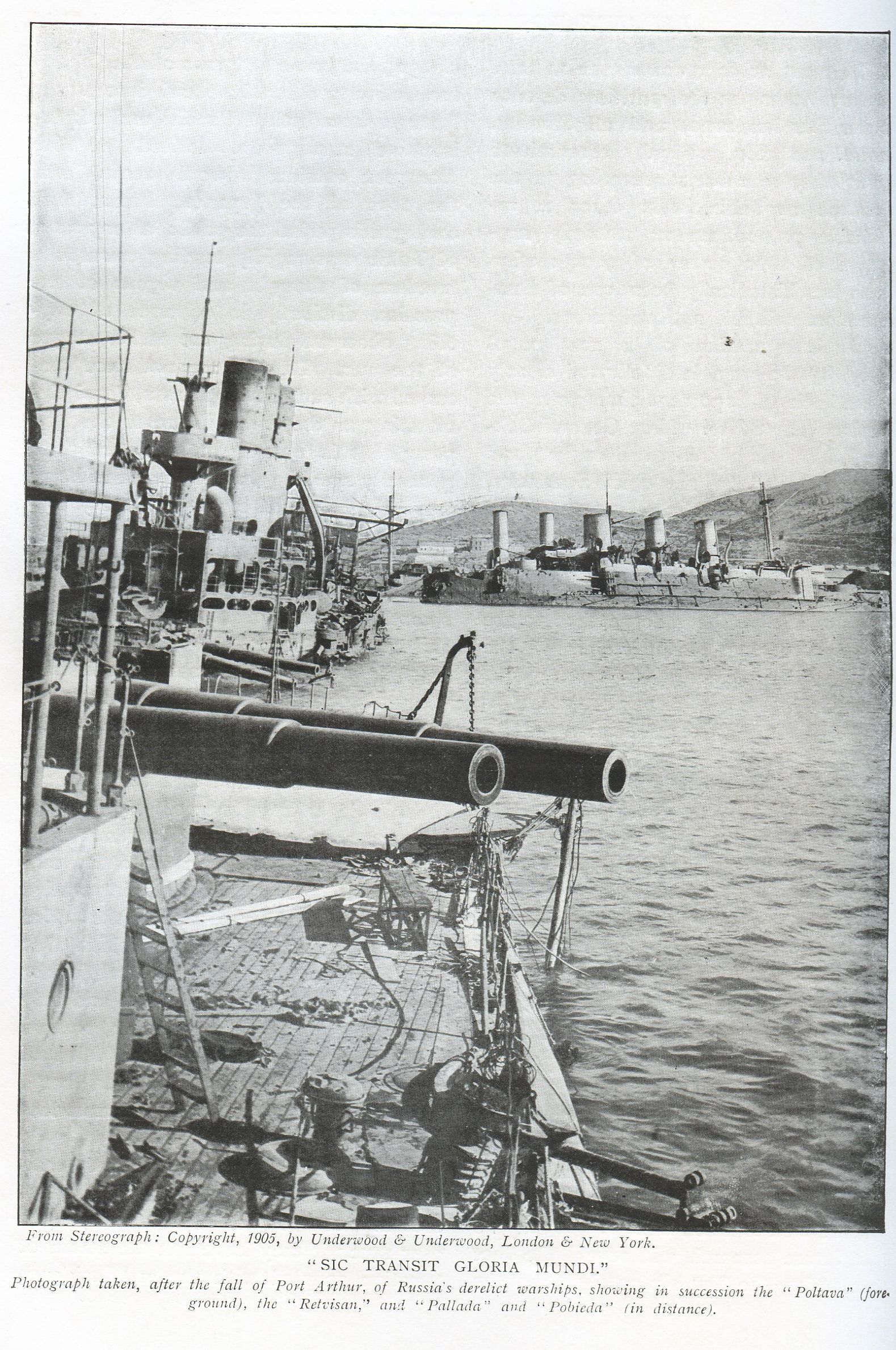 Photograph taken after the fall of Port Arthur, of Russia's derelict warships, showing in succession the Poltava (foreground), the Retvisan, and Pallada and Pobeda (in distance)